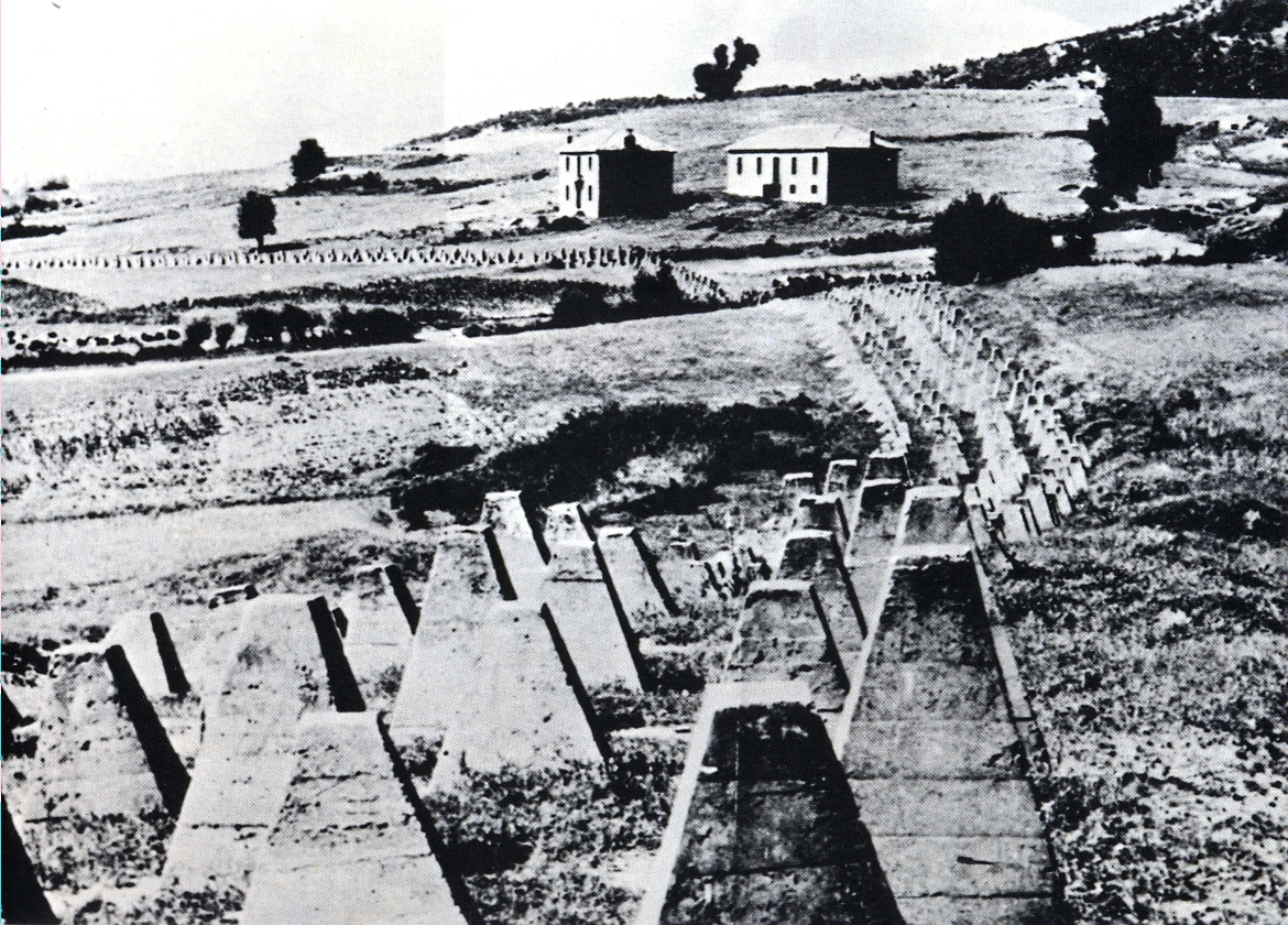 Dragon tooth in Metaxas line, near the Greek-Bulgarian border